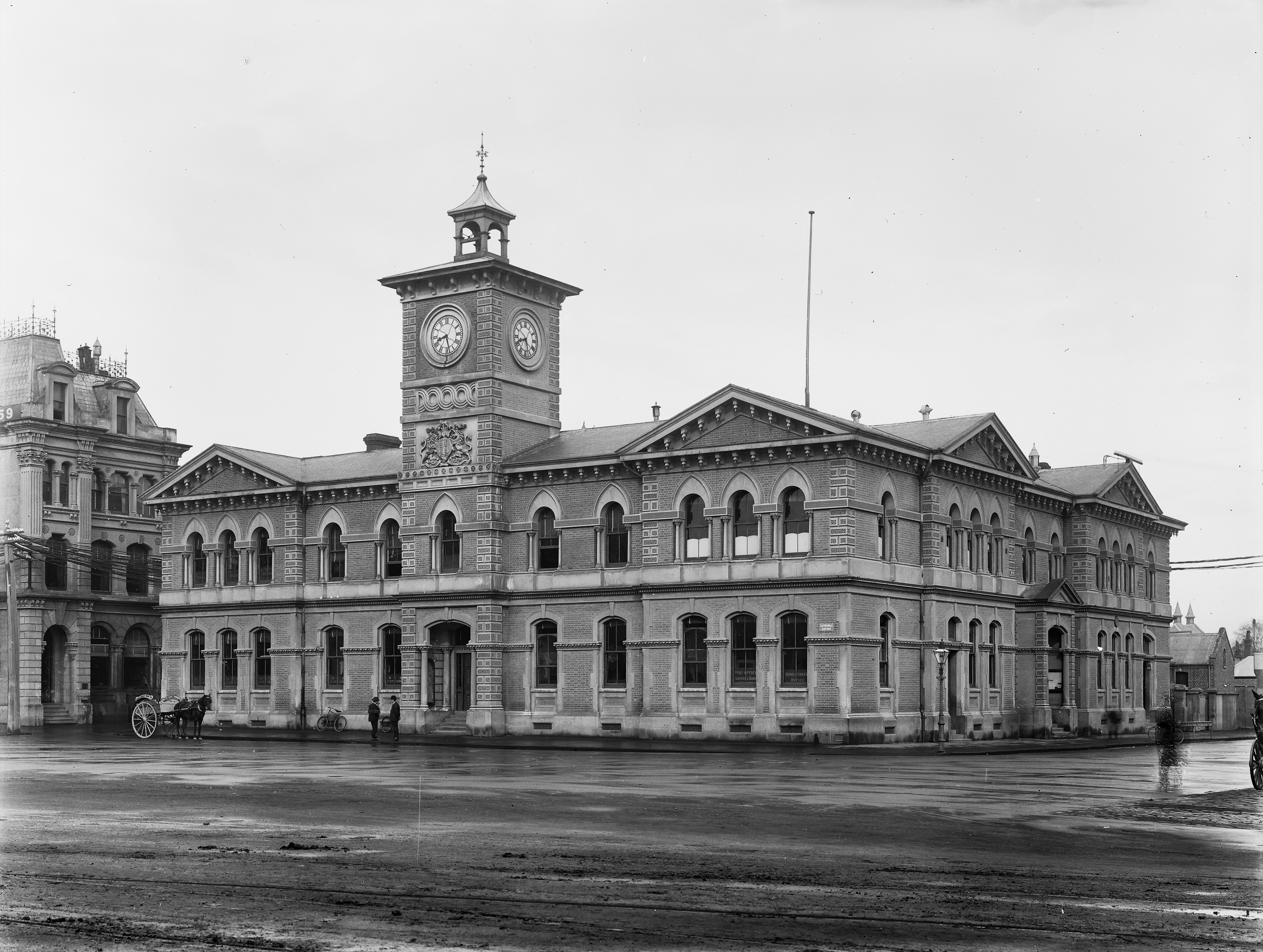 View of the Central Post Office in Cathedral Square in Christchurch. A horse and cart is standing near the corner of the building, and two unidentified men are standing on the footpath near the entrance. Photograph taken by J Marks, wrongly labelled in the source as ca 1914; it was taken prior to the 1907 extension of the building on its western end.